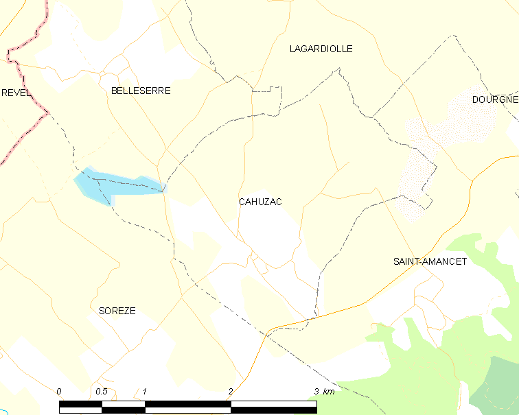 Map of French municipality Cahuzac